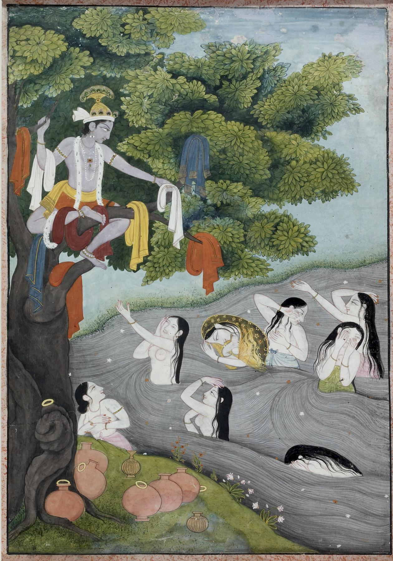 Always the prankster, Krishna spies the gopi (cowgirls) of Vraja bathing naked in the Yamuna River. He positions himself with all of their clothes high in a tree. They beg him to return their garments, but he insists that they each come out of the water to receive their clothing.